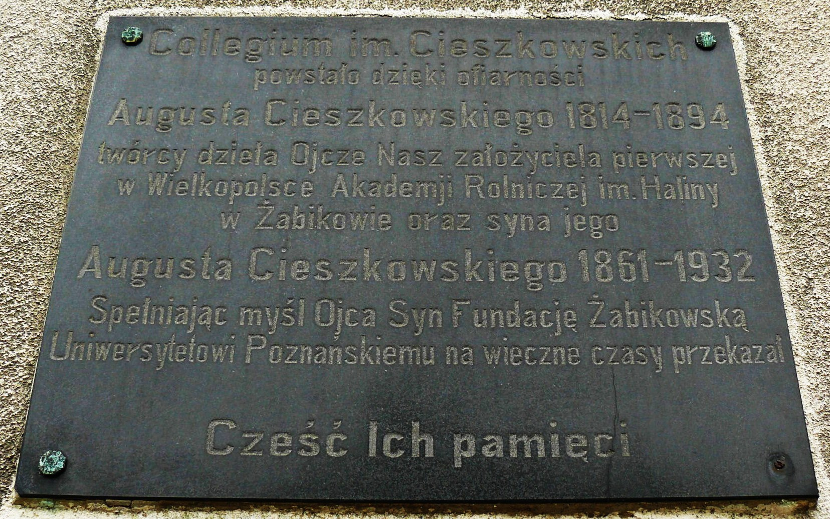 August Cieszkowski Plaque, Poznan.